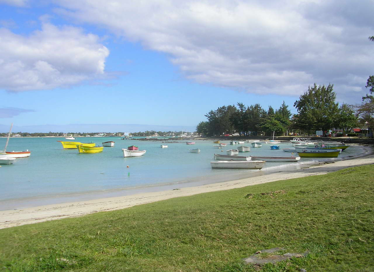 Grand Baie, Grand Bay (2006) - city on the northern part of Mauritius